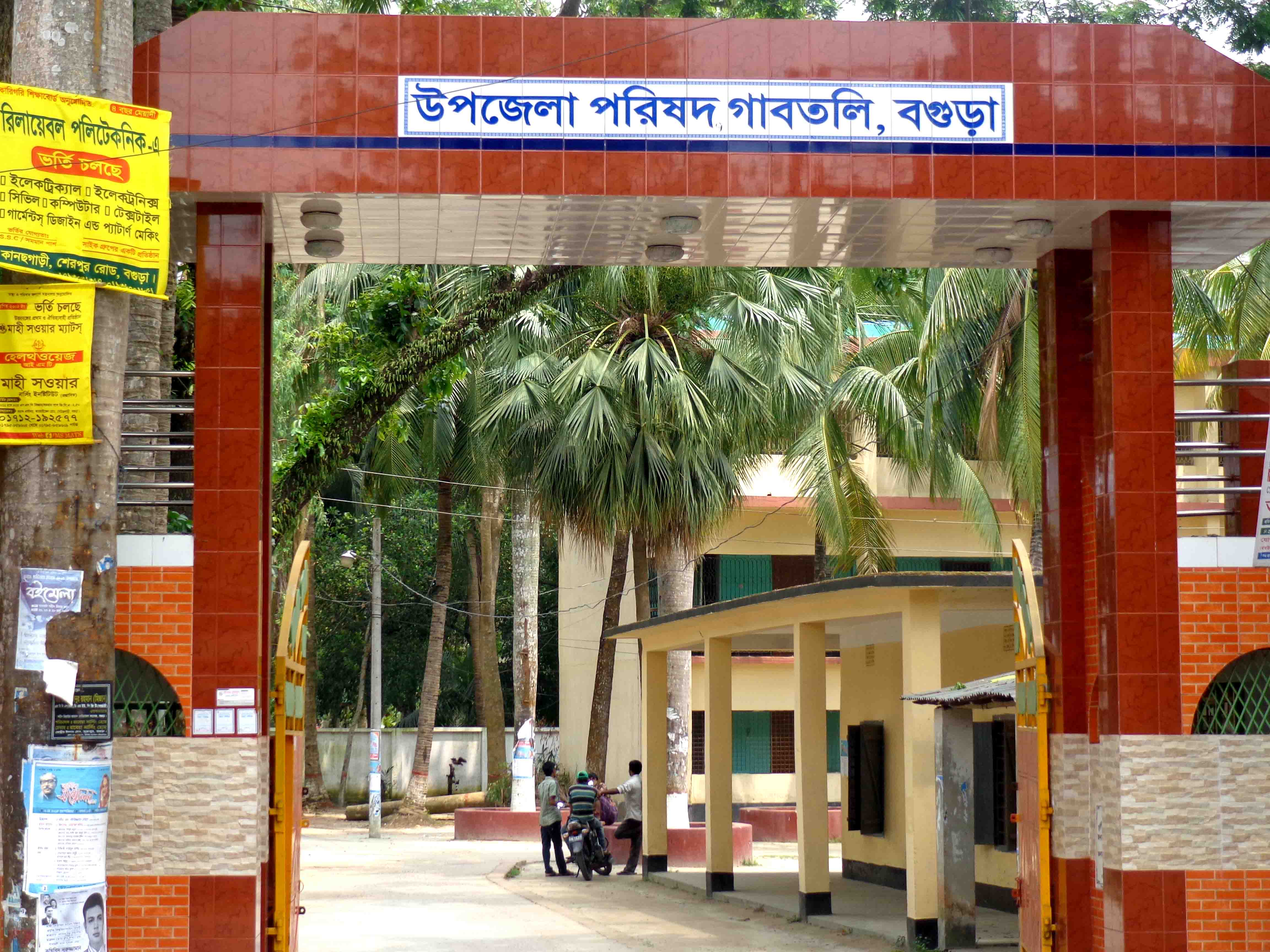 গাবতলী উপজেলা পরিষদ গেট